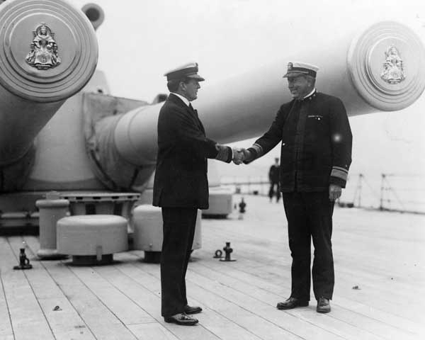 Admiral Sir David Beatty, RN, greeting Rear Admiral Hugh Rodman, USN, under the guns of HMS Queen Elizabeth, upon the arrival of Battleship Division Nine, U.S. Atlantic Fleet.